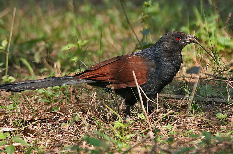 Greater Coucal Centropus sinensis in Kolkata, West Bengal, India.